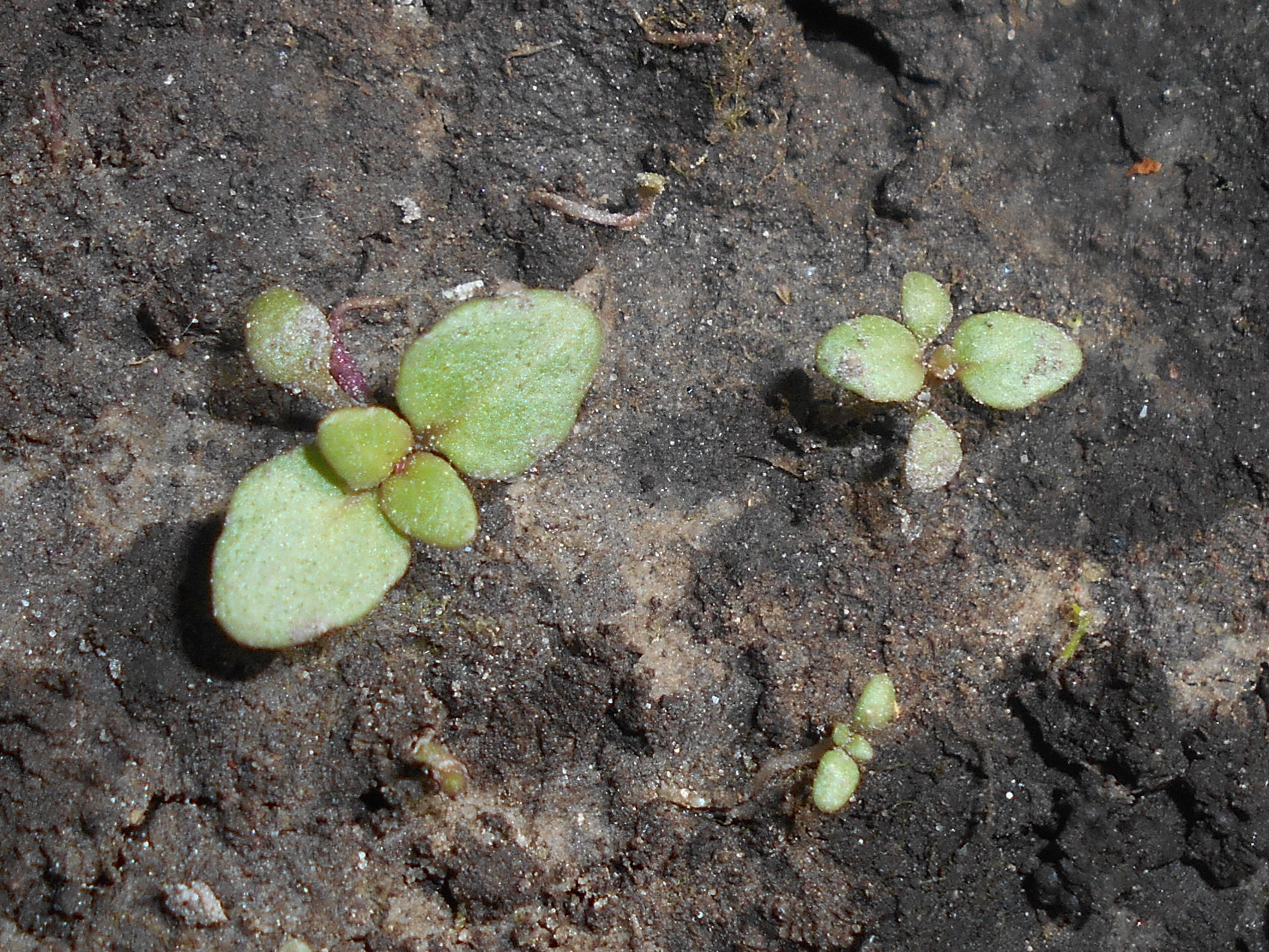 Veronica beccabunga seedlings, allotment garden in Lublin, Poland.